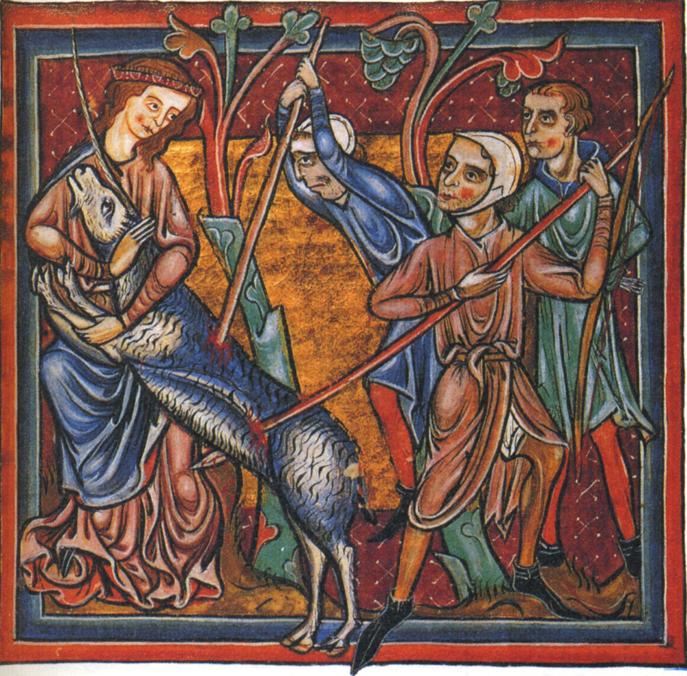 Bodleian Library, MS. Bodley 764, Folio 10v : Unicornis, England, ca 1225-50.